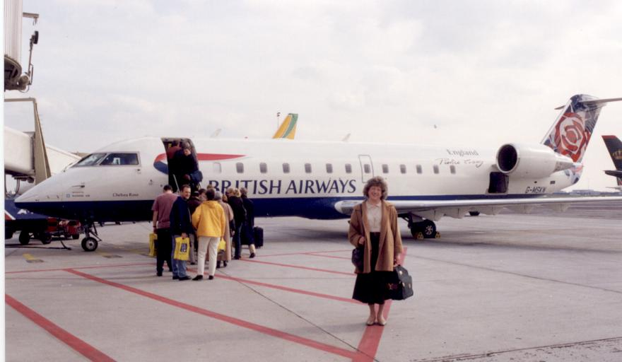 British Airways Canadair RJ100 at Amsterdam